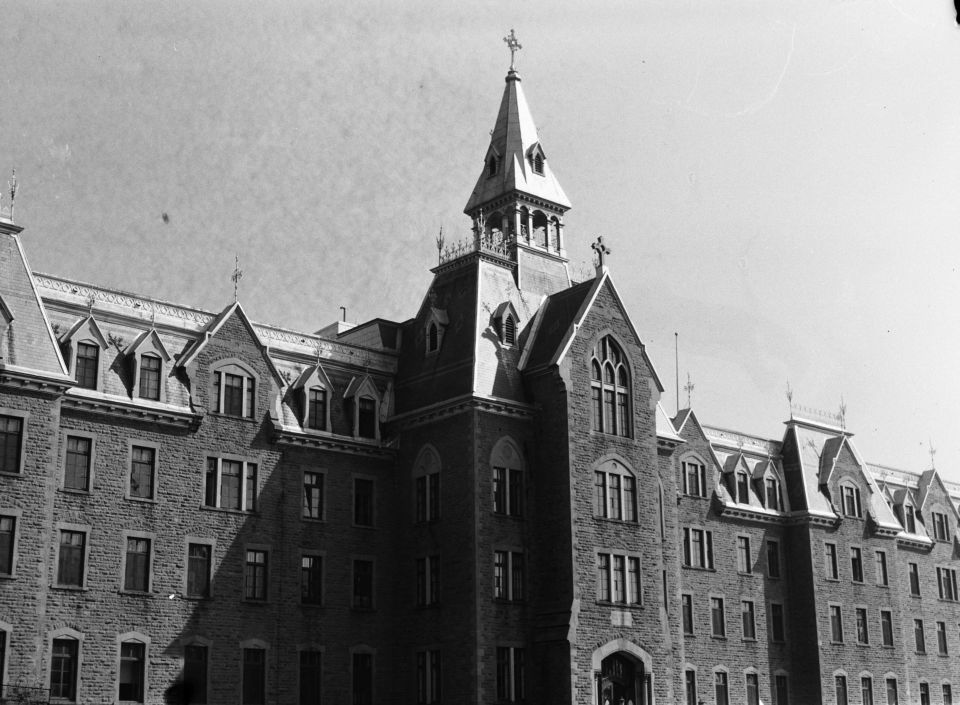 The seminary of Sainte-Thérèse, Quebec (now Collège Lionel-Groulx).